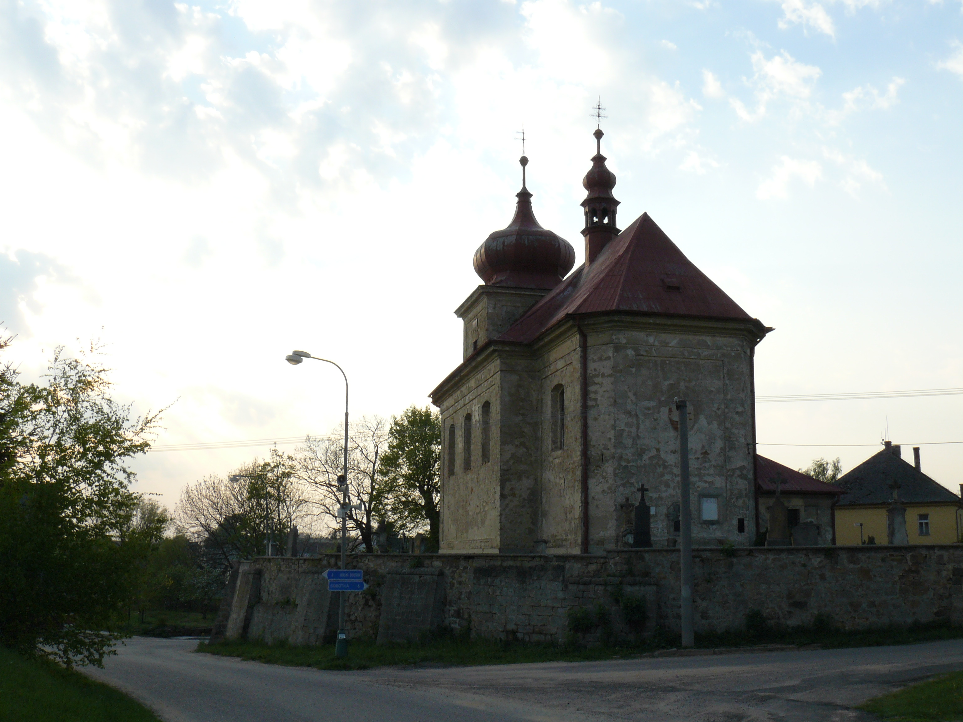 Markvartice (Jicin district)